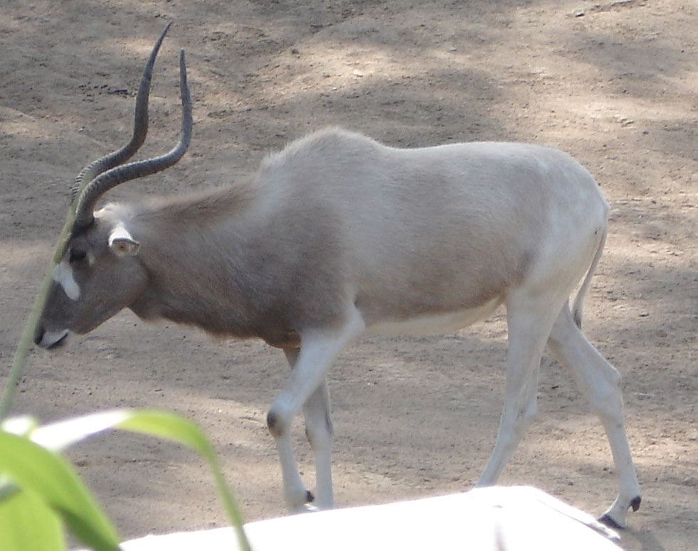 Addax, in Zoo Hannover.